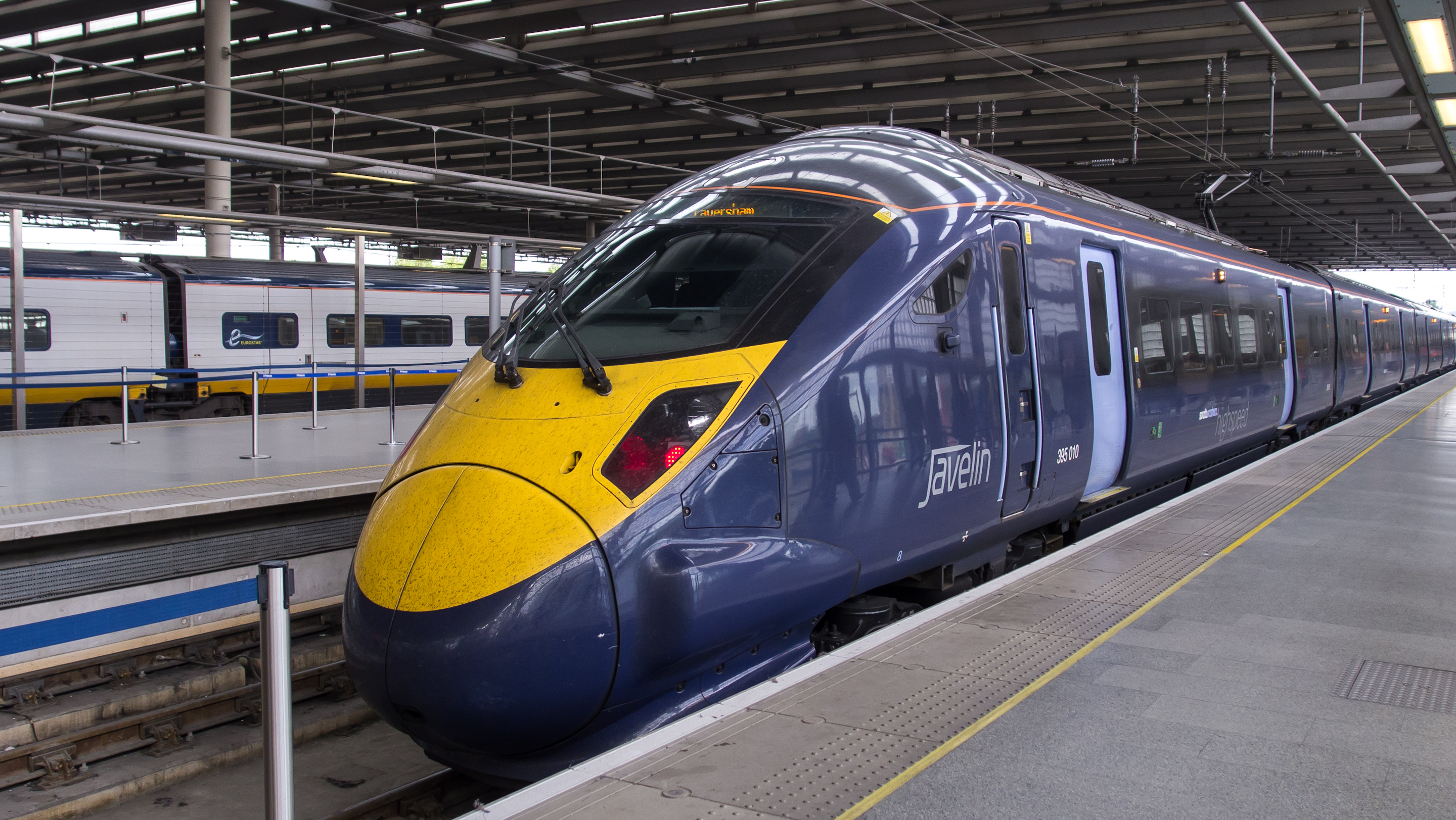 Javelin train at St Pancras International